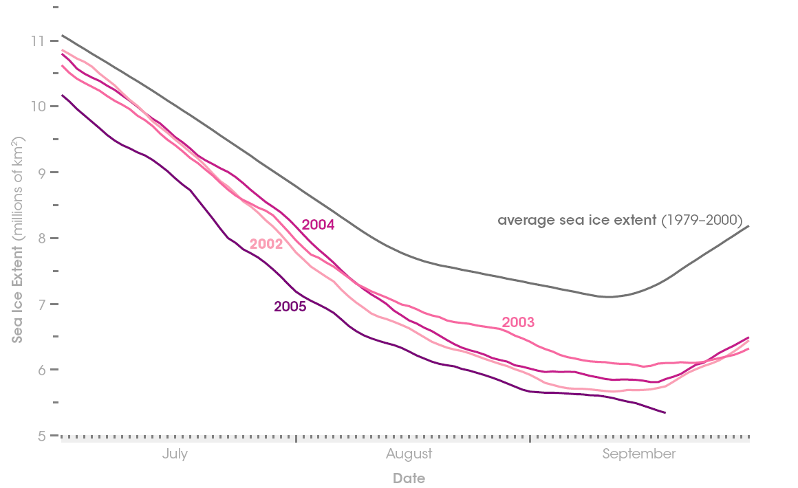 Graph showing the decline of Arctic sea ice over the summer months from 2002-05 as compared to 1979-2000.